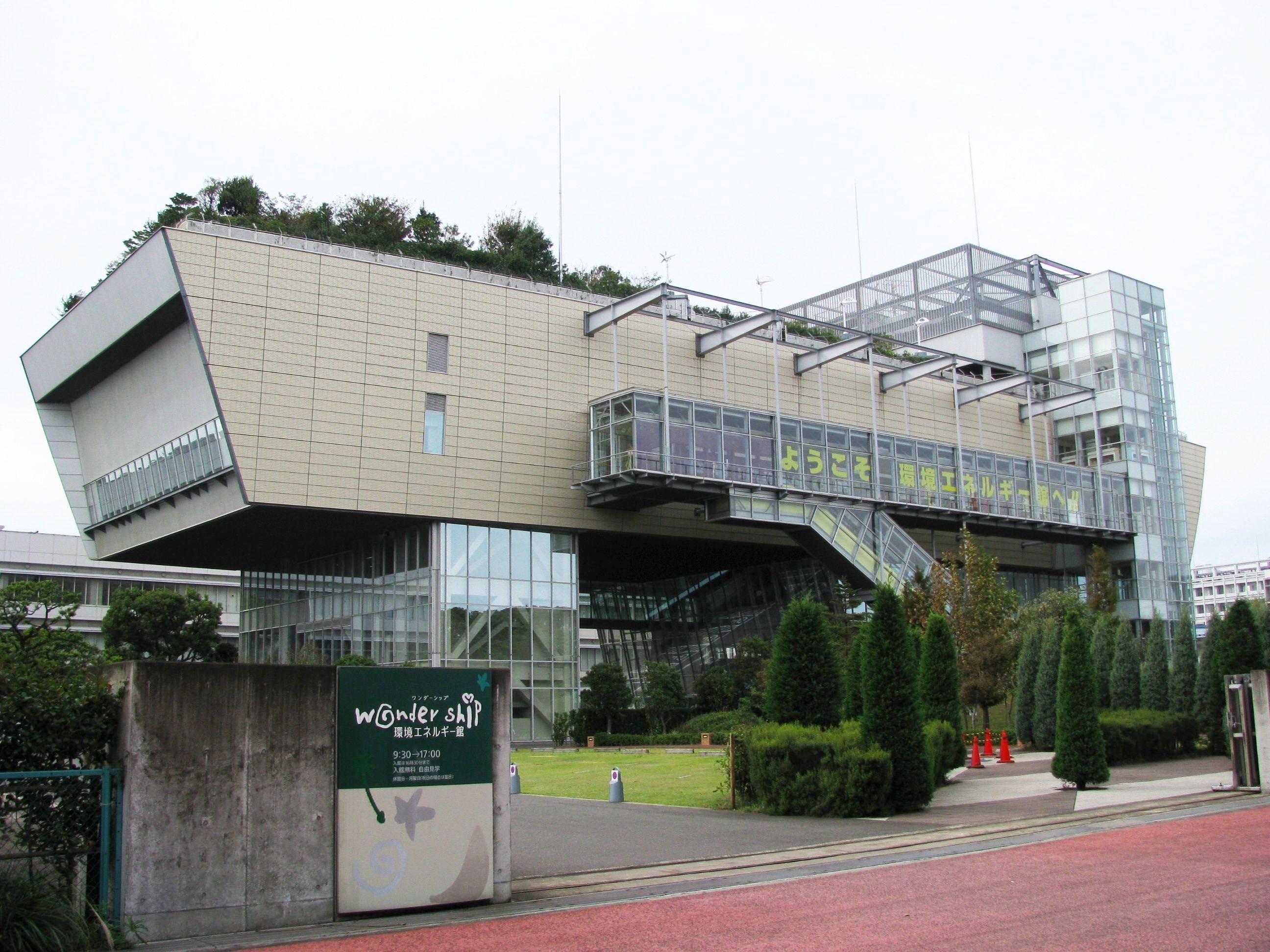 The Tokyo Gas Wonder Ship. This location is Suehirocho in Tsurumi-ku, Yokohama, Kanagawa Prefecture, Japan.